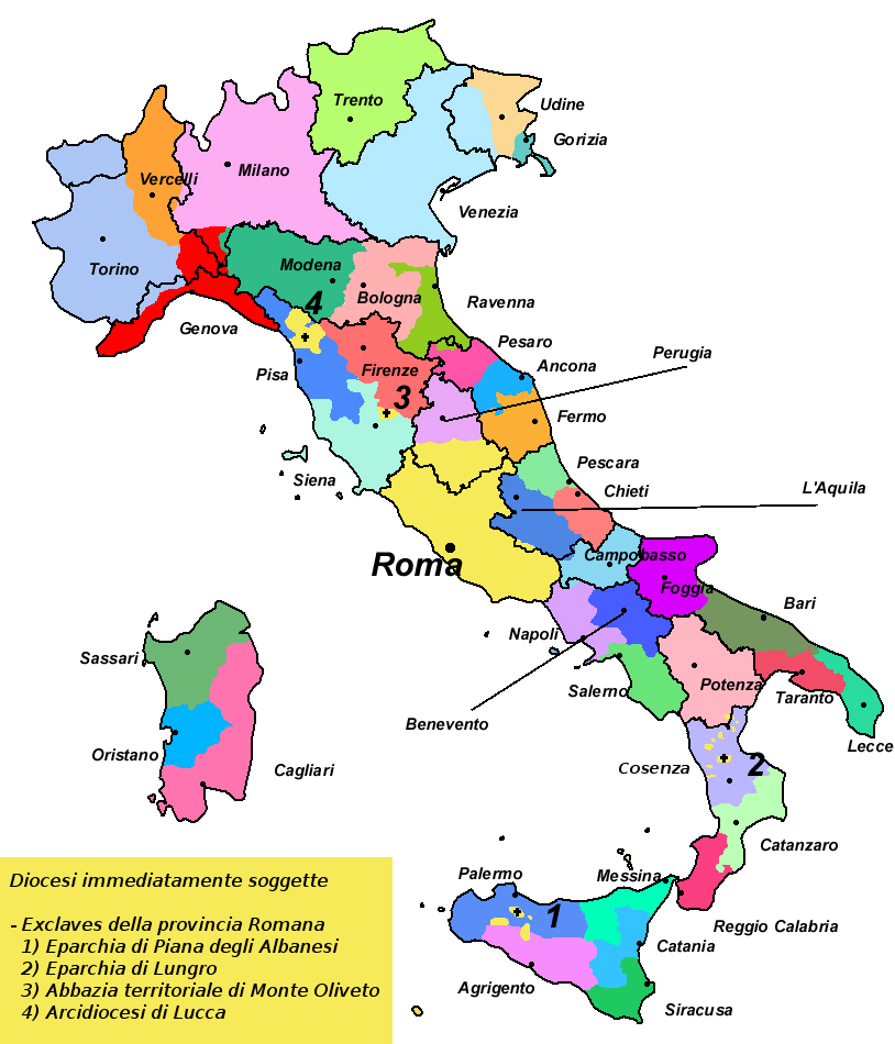 The image represents the ecclesiastical provinces of Italy.